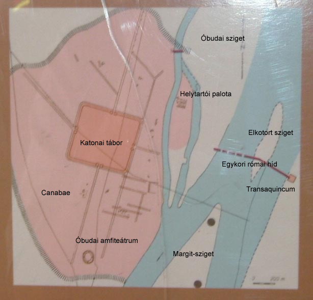 Plan of Aquincum